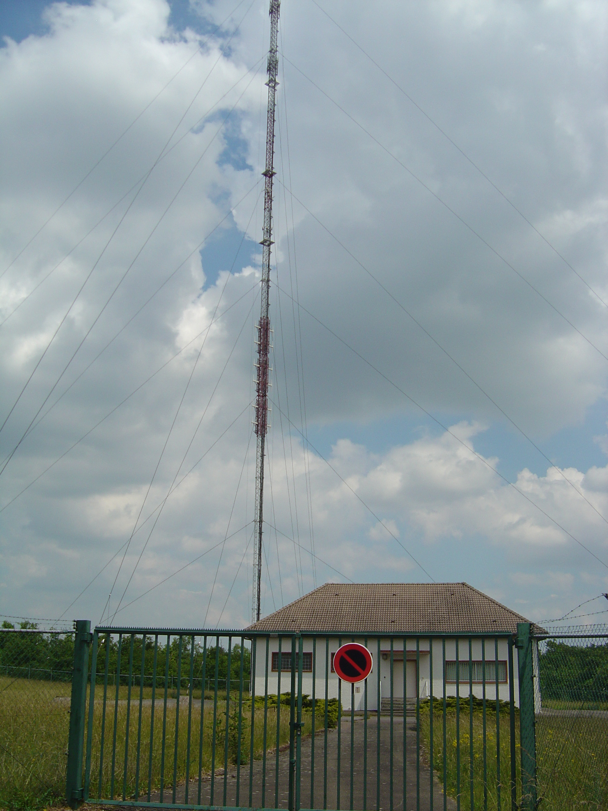 Antenne avancée de l'aviation civile du Mont Afrique (Bourgogne, 21)